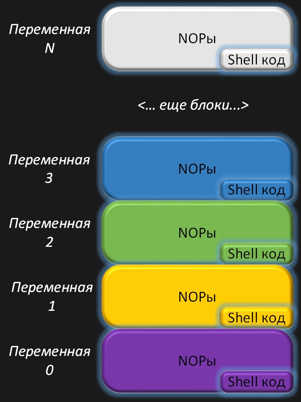 Array for spraying